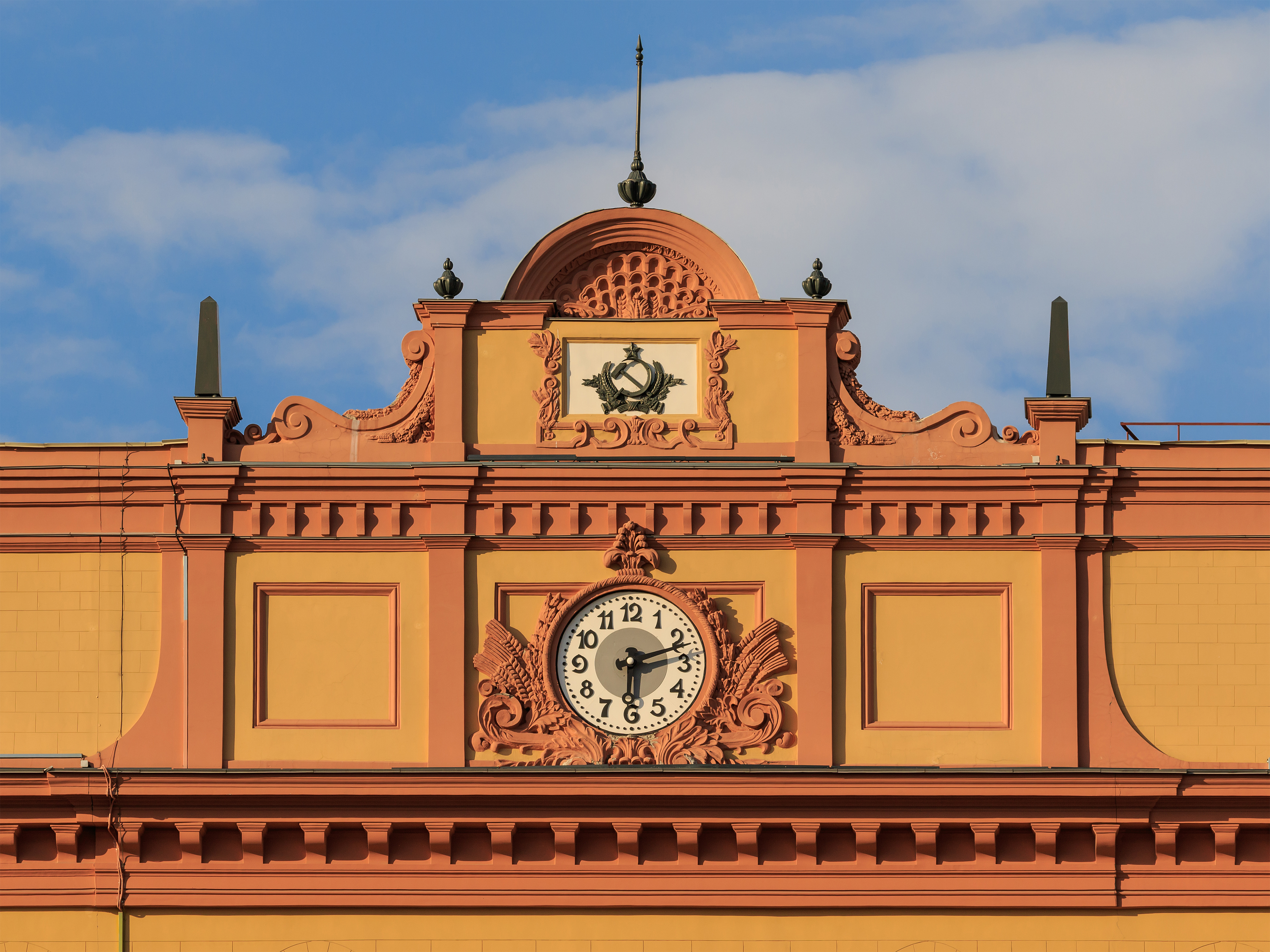 Detail of FSB building at Lubyanka in Moscow (Russia).